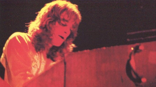 Tony Kaye in 1973 taken by myself (Jorge Butehrein)